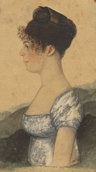 Watercolor miniature portrait of Susanna Rowson (1762-1824)